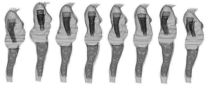 8 women with the same Body Mass Index rating (BMI - 30) but with different weight distribution and abdominal volume, so they have different Body Volume Index (BVI) ratings. Select Research, 09-09-08